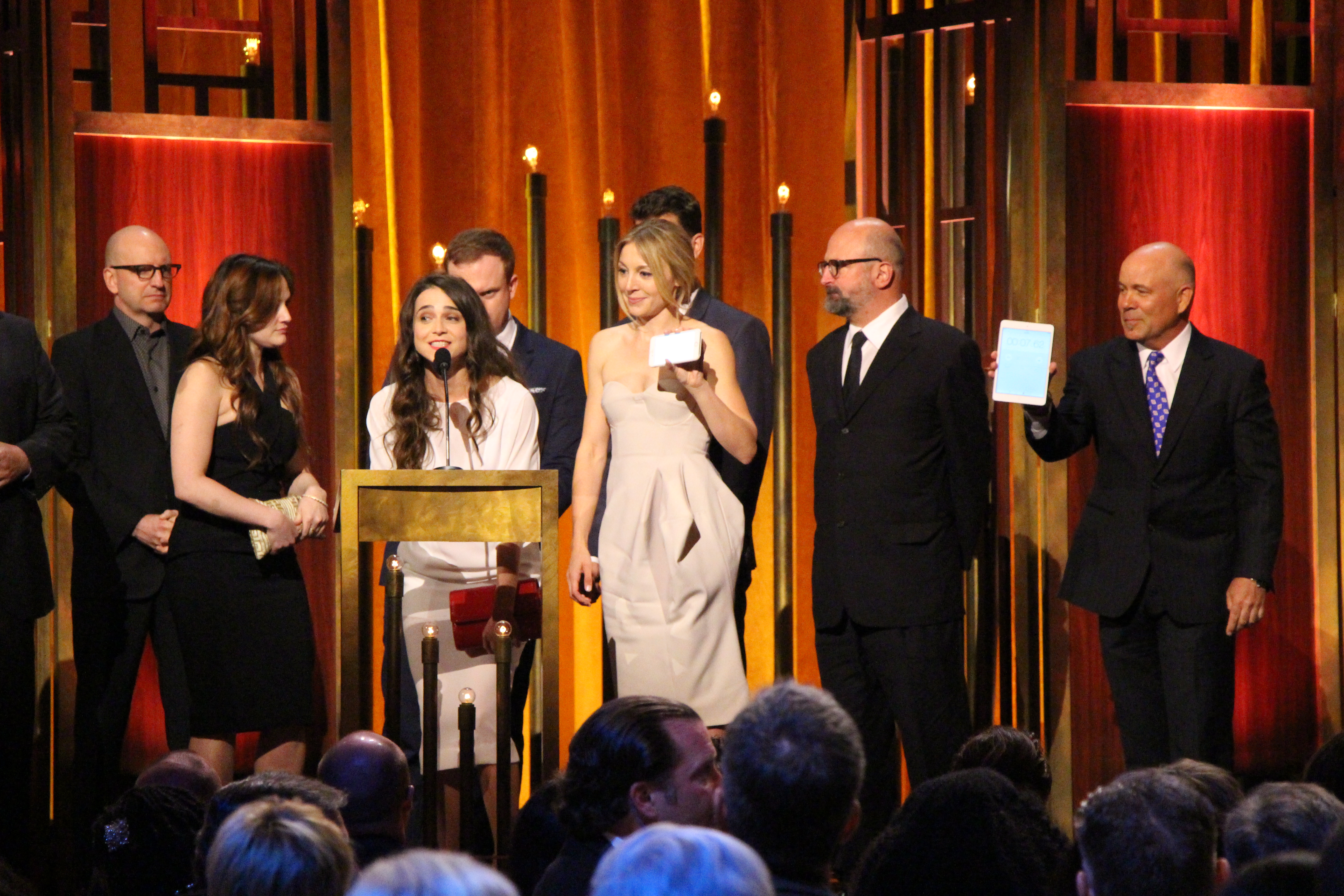 Maya Kazan at the Peabody Awards, 2015